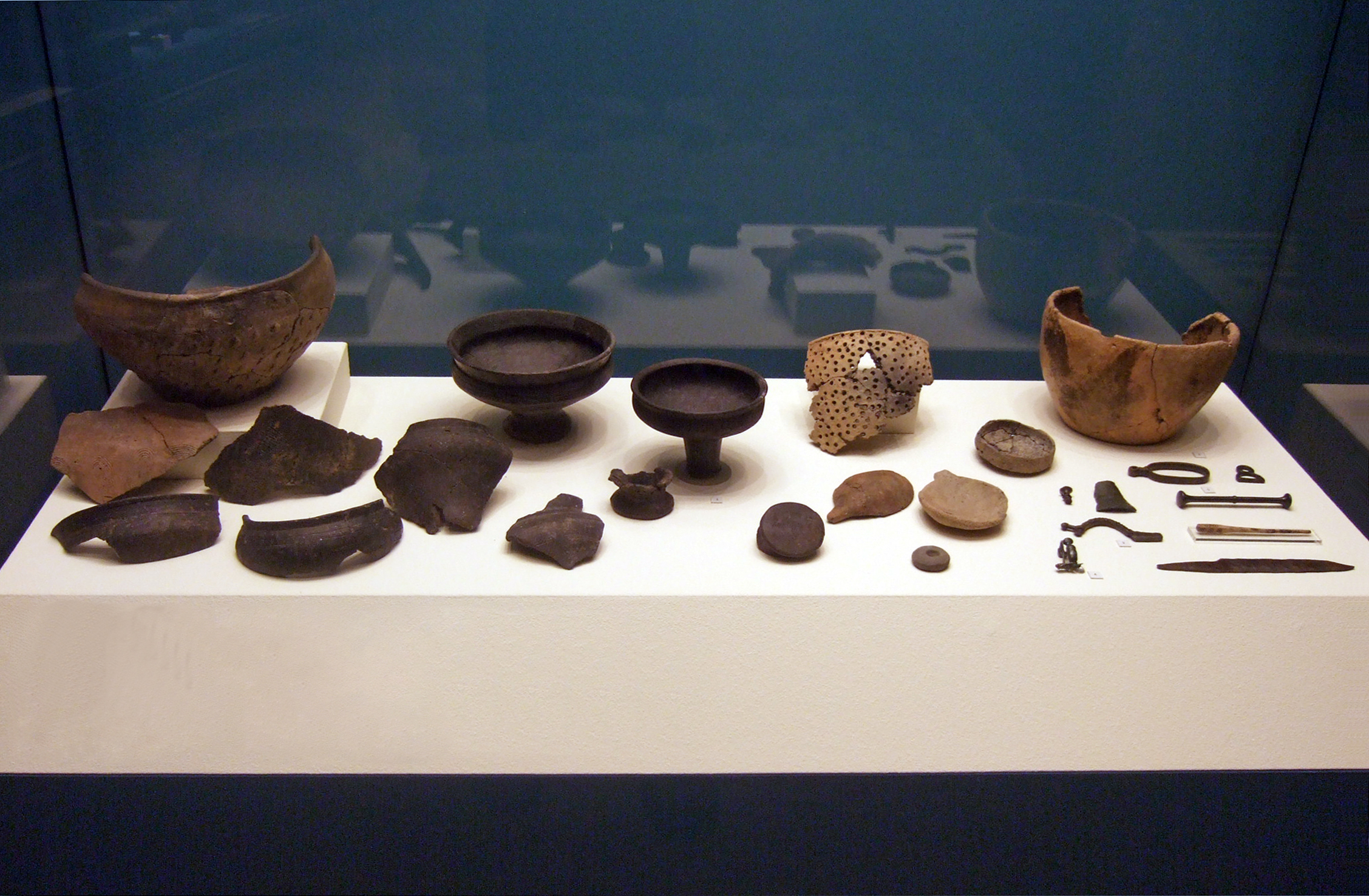 Berlin, Germany Grave goods from the settlement area of Biesdorf Habichtshorst neighborhood, Biesdorf District, Marzahn Borough of Berlin, Germany The Elbe Germanic settlement of Biesdorf is at present the largest investigated northern German site for finds from the pre-Roman Iron Age as well as the imperial Roman and migration eras, yielding great quantities of ceramics from the earliest Bronze Age to the developed later Roman imperial era (9th century B.C. to the 2nd century A.D.). A number of finds from the late Roman imperial era and early migration age, in part of Roman origin, evidence the far-flung connections of the Elbe Germanic population that settled here. While the locale Berlin-Biesdorf Habichtshorst cannot be counted among Lombard sites, it is an exemplary instance of the sort of continuous settlement over a span of nearly a millennium possible in regions with favorable natural conditions. Grave goods: 1. Black goblet with a very narrow foot, drawn out stemlike. This is most likely a drinking cup, for the stem foot can be easily grasped in one hand. The object presumably dates to the later imperial era. 2. Coarse vessel with retracted lip. Shapes like this are termed "Kümpfe". Kümpfe are among the most widely distributed vessel forms throughout barbarian Europe. They presumably served for preparing food. 3. Bronze fibula. This is presumably a domestic product, crafted following a Celtic model. 3rd century B.C. 4. Bronze fibula with a stemmed bow stud. 2nd half of the 4th century. 5. Ribbon-shaped belt hook of iron. 1st century B.C. Photographed while on display from 22 August 2008 to 11 January 2009 in the exhibition "Die Langobarden. Das Ende der Völkerwanderung" at the Rheinisches LandesMuseum Bonn. On loan from the Museum für Ur- und Frühgeschichte, Berlin Charlottenburg.